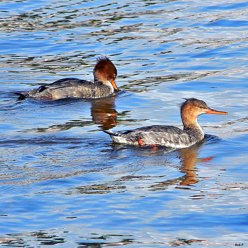 After days of rain, these young mergansers were enjoying a few hours of blue sunny sky yesterday morning along Florida's Intracoastal Waterway. I think they are young red-breasted mergansers but, since they don't have flowers or roots, I'm not sure ;-)